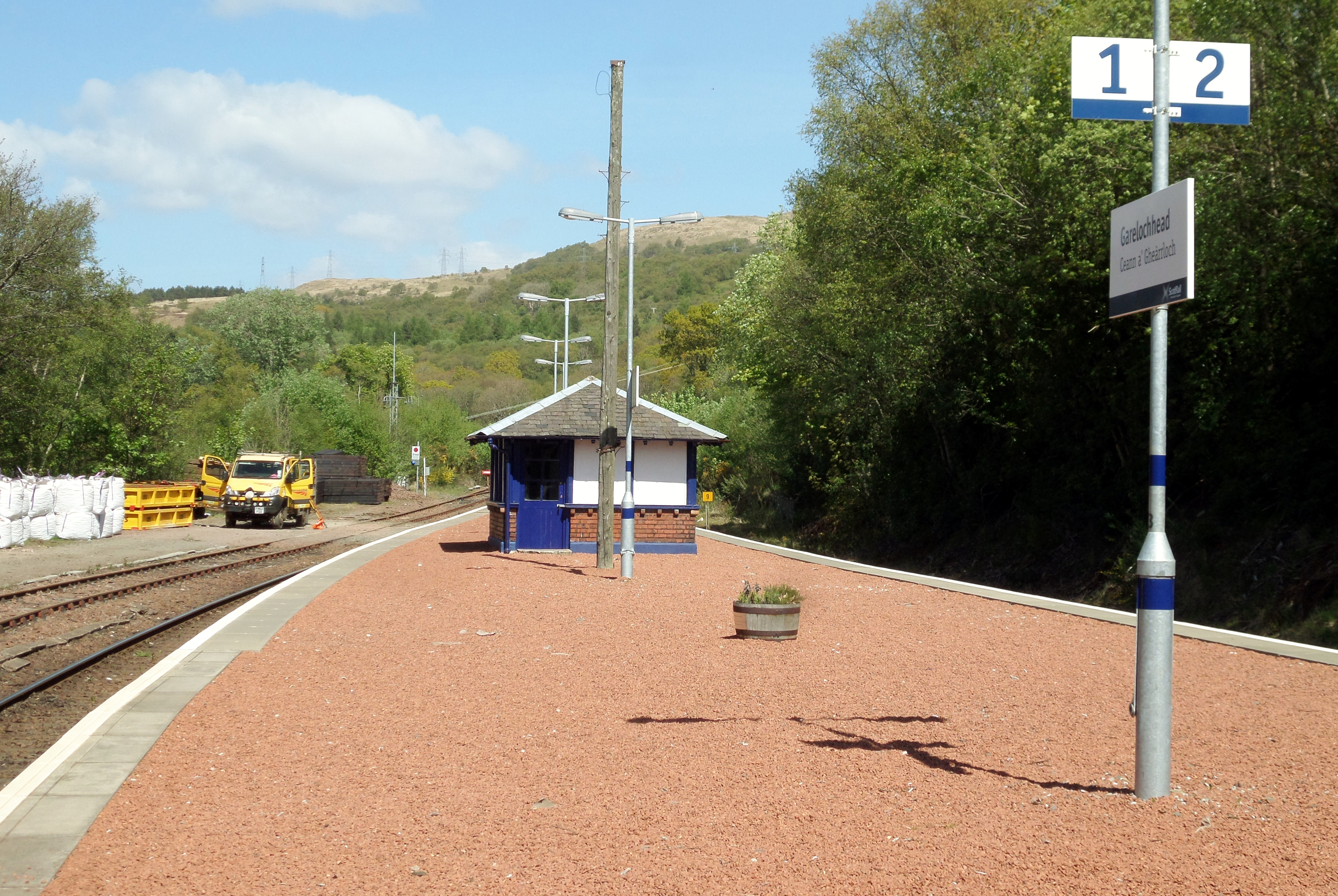 Garelochhead station, West Highland Line, Argyll and Bute. View looking north. Old signal box.